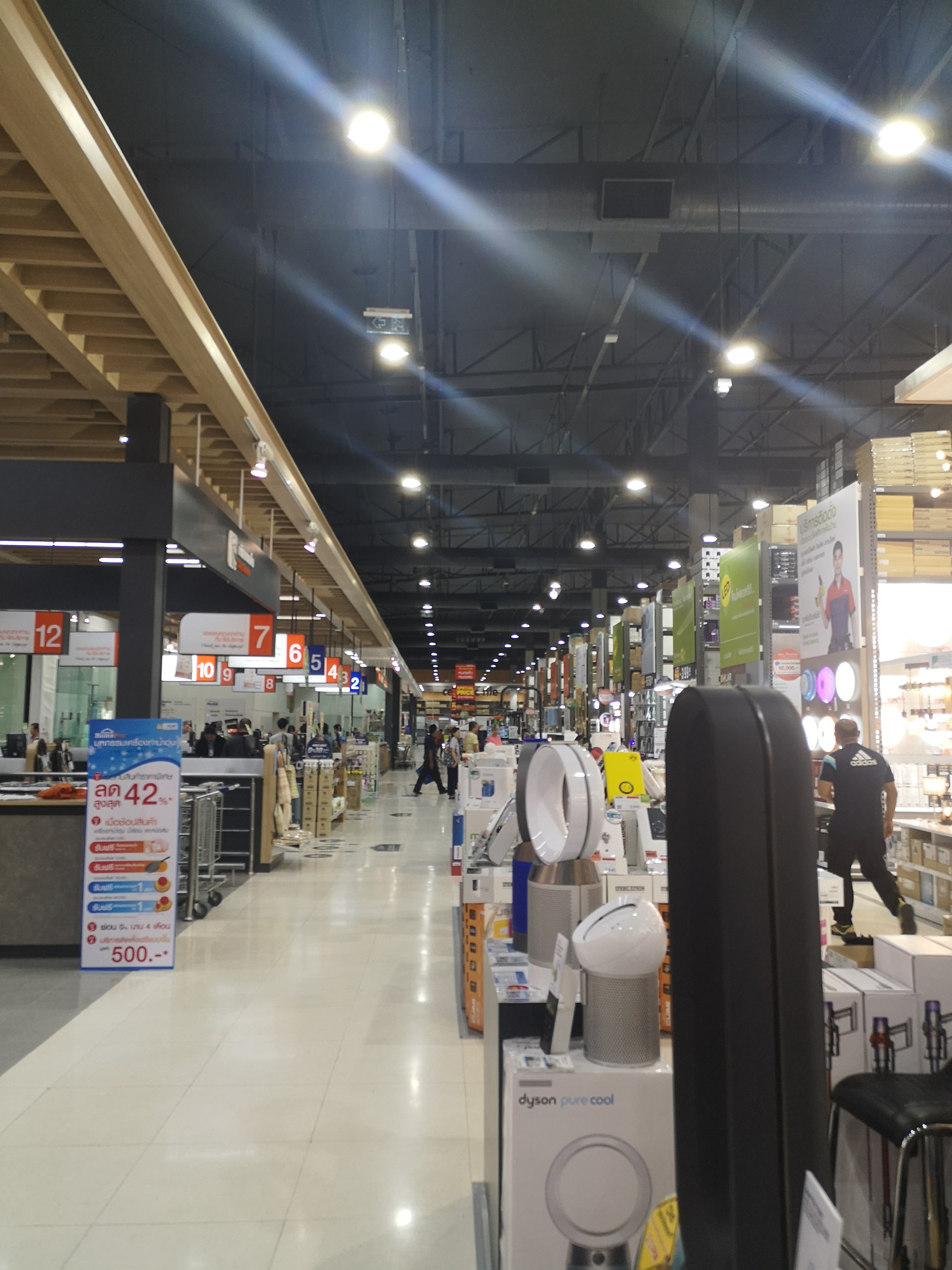 Homepro Mega Bangna